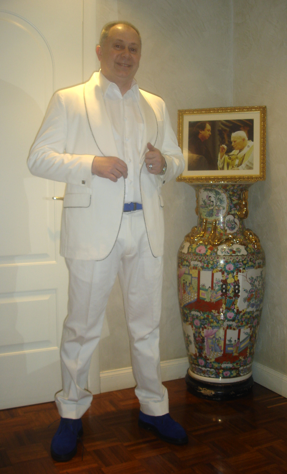 Lele Mora indossa giacca con polso gemello "Modello Lele Mora". In pos davanti a una fotografia mentre riceve l'eucaristia da Giovanni Paolo II